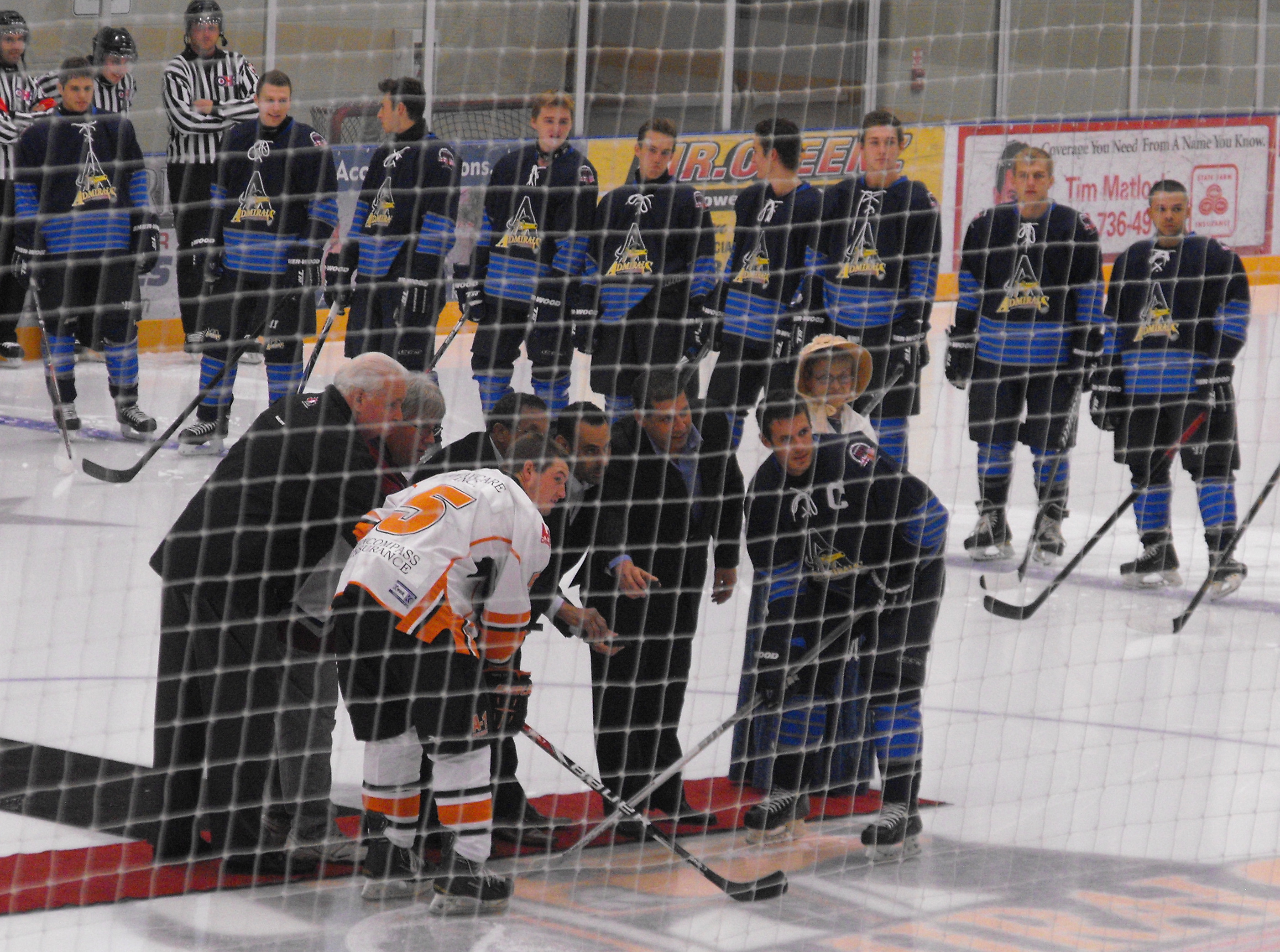 These images of GLJHL action are taken by Devan Mighton.